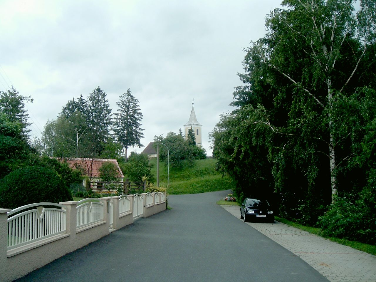 Burg (Pinkaóvár), Burgenland, Austria